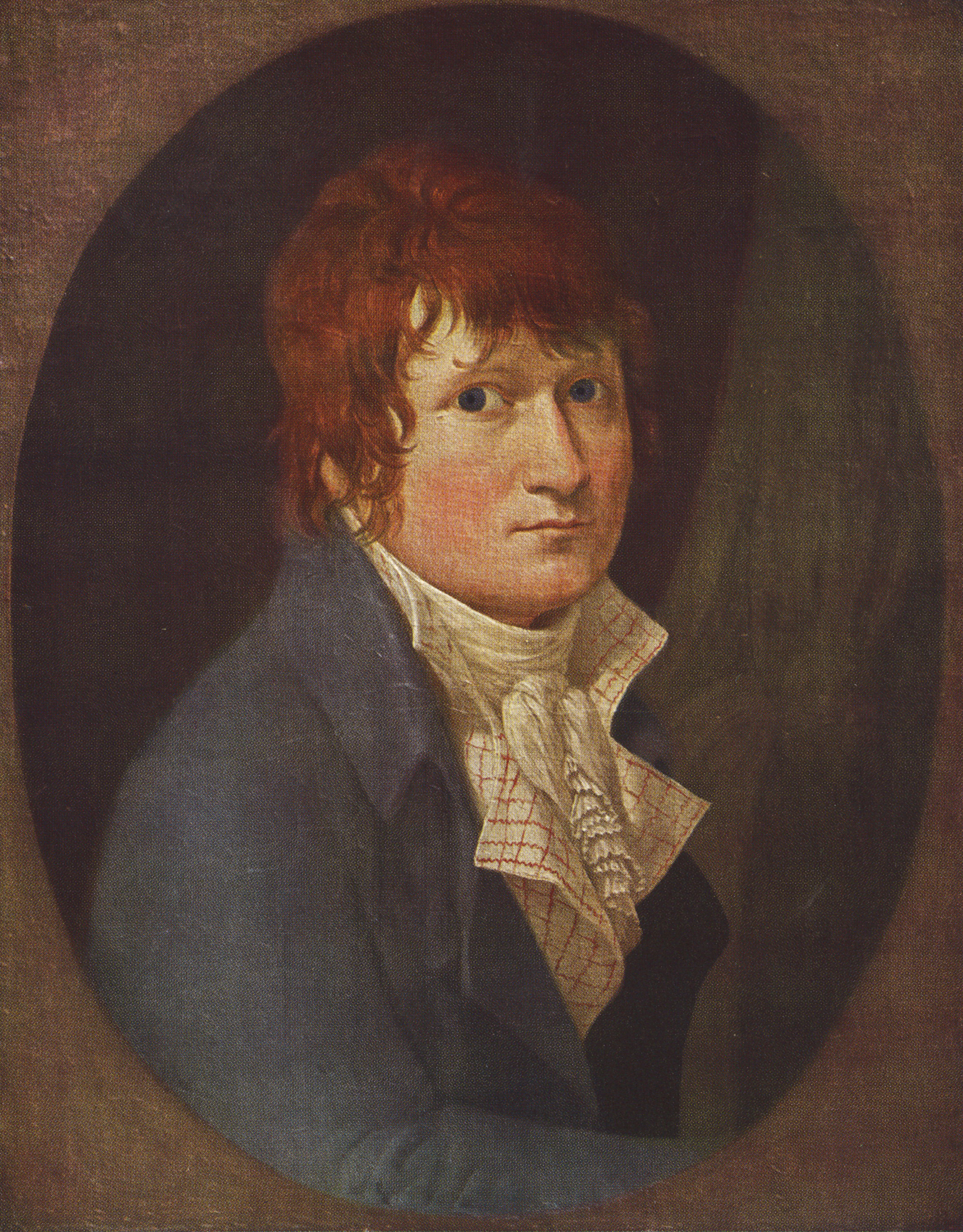 Christoffer Wilhelm Eckersberg (1783-1853), Danish painter. Self portrait.